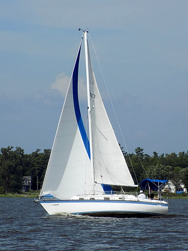 A Hunter 27 sailboat.